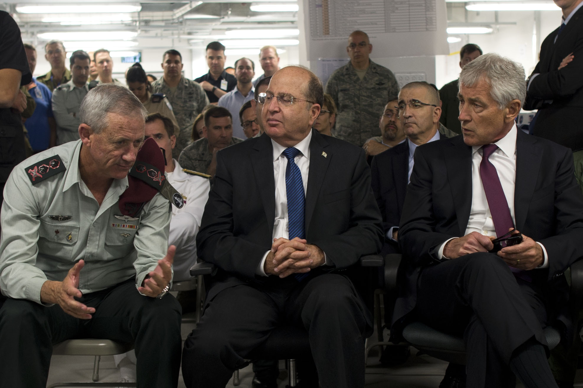 ecDef visits Israel - May 15-16, 2014